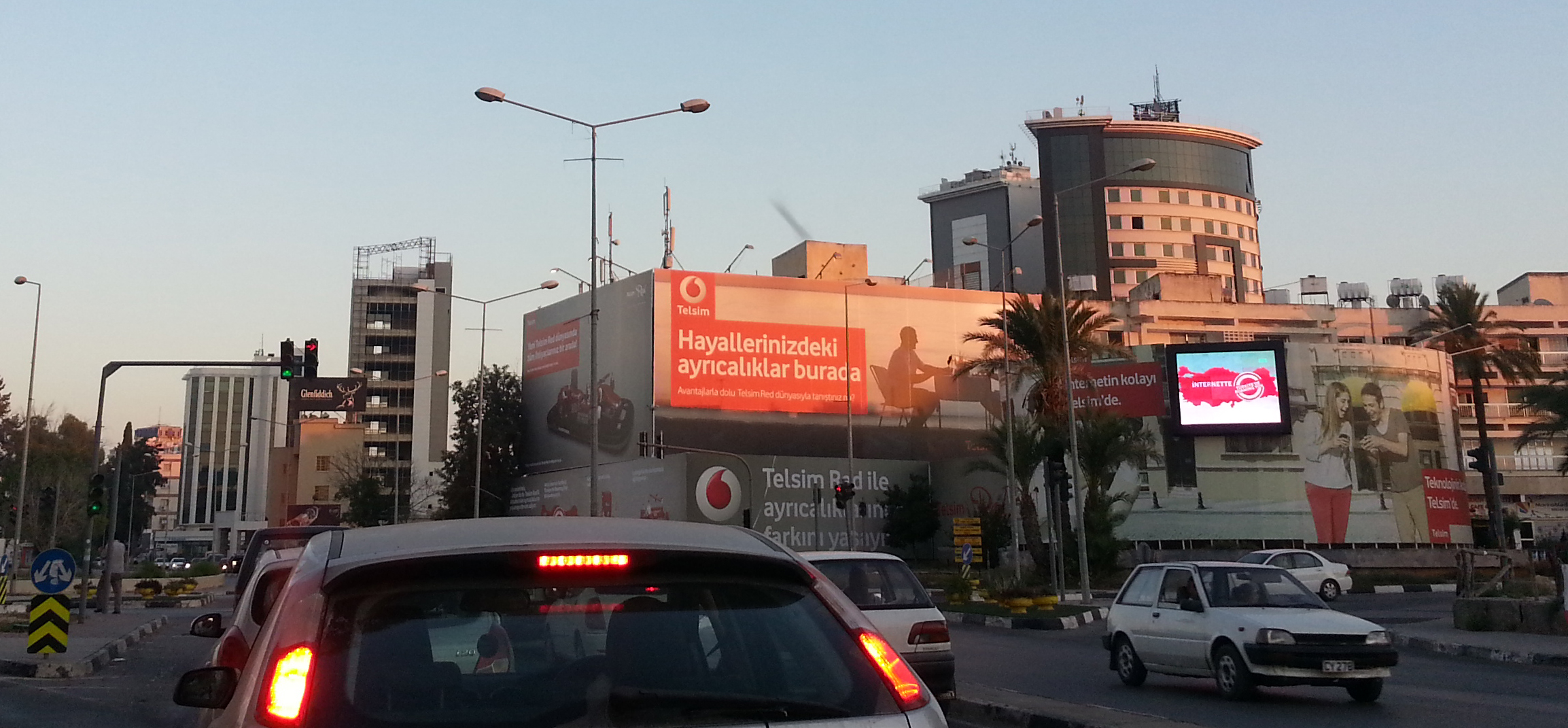 The junction of the Prime Ministry leading on to the Bedrettin Demirel Avenue in North Nicosia